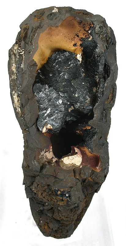 Groutite Locality: Emilie Mine (Bülten-Adenstedt Mine), Peine, Lower Saxony, Germany (Locality at ) Size: cabinet, 11.1 x 5.6 x 5.4 cm Groutite in manganese nodule This is an OUTSTANDING specimen of crystallized groutite in huge crystals and in a rich quantity, as well. The cluster of crystals measures 3.5 x 3 cm and fills half of a hollow vug inside this manganese nodule (part remains packed with hardened kaolin clay). The overall specimen is important for the species, but also interesting for the environment, and how it shows the crystals formed inside a hollowed nodule of the manganese. It displays nicely (or upside down, as a rounded lump with a surprise inside). When I first saw this specimen I was sure it was perhaps manganite or some other species, as groutite seldom forms such large crystals , nor such rich masses.